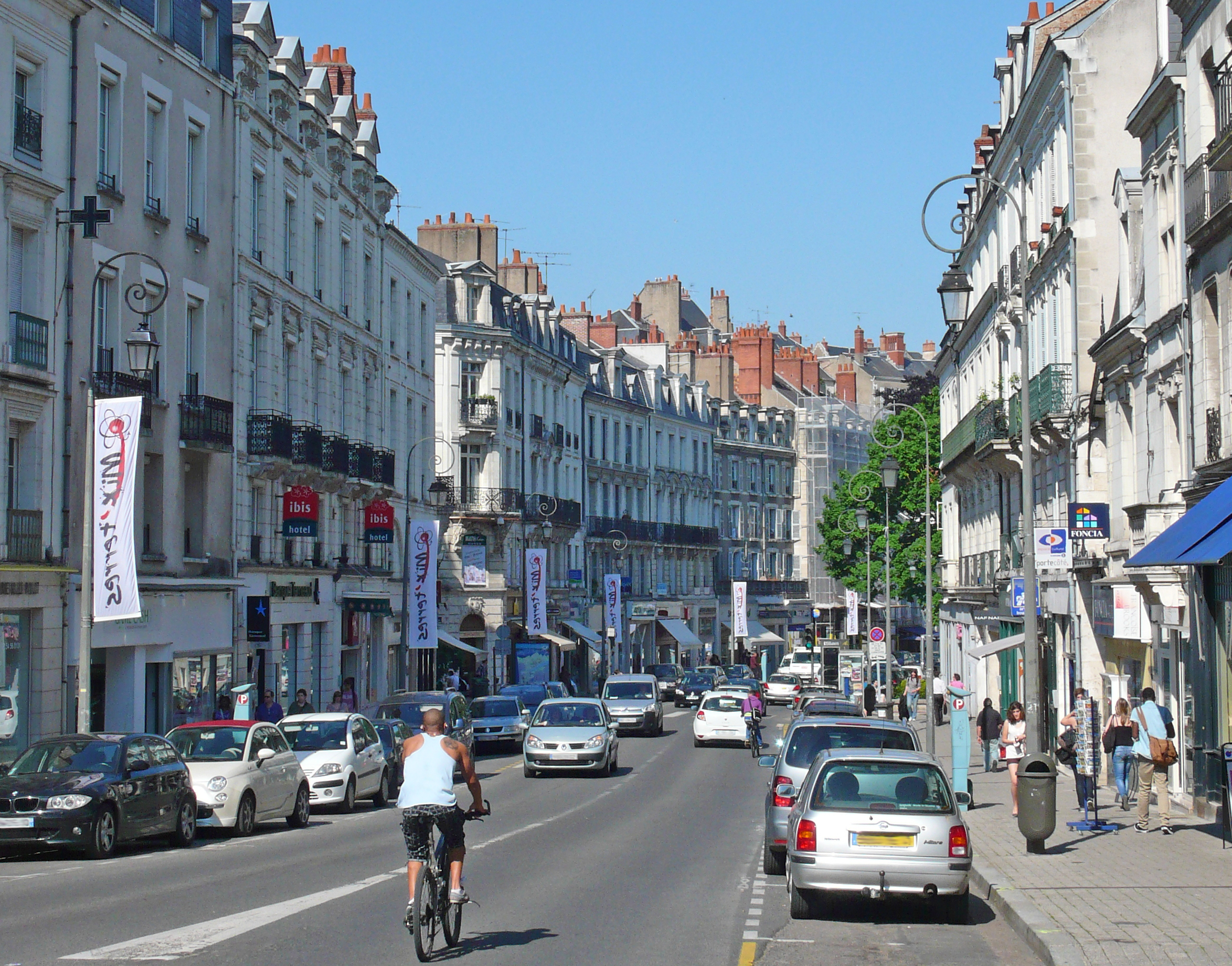 Street in Blois, France